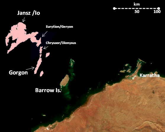 Location map showing the approximate location of some of the Greater Gorgon gas fields in realation to Barrow Island and the Western Australian coastline.